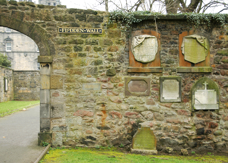 I took this photograph myself. Section of the Flodden Wall, in Greyfriar's Kirkyard, Edinburgh.